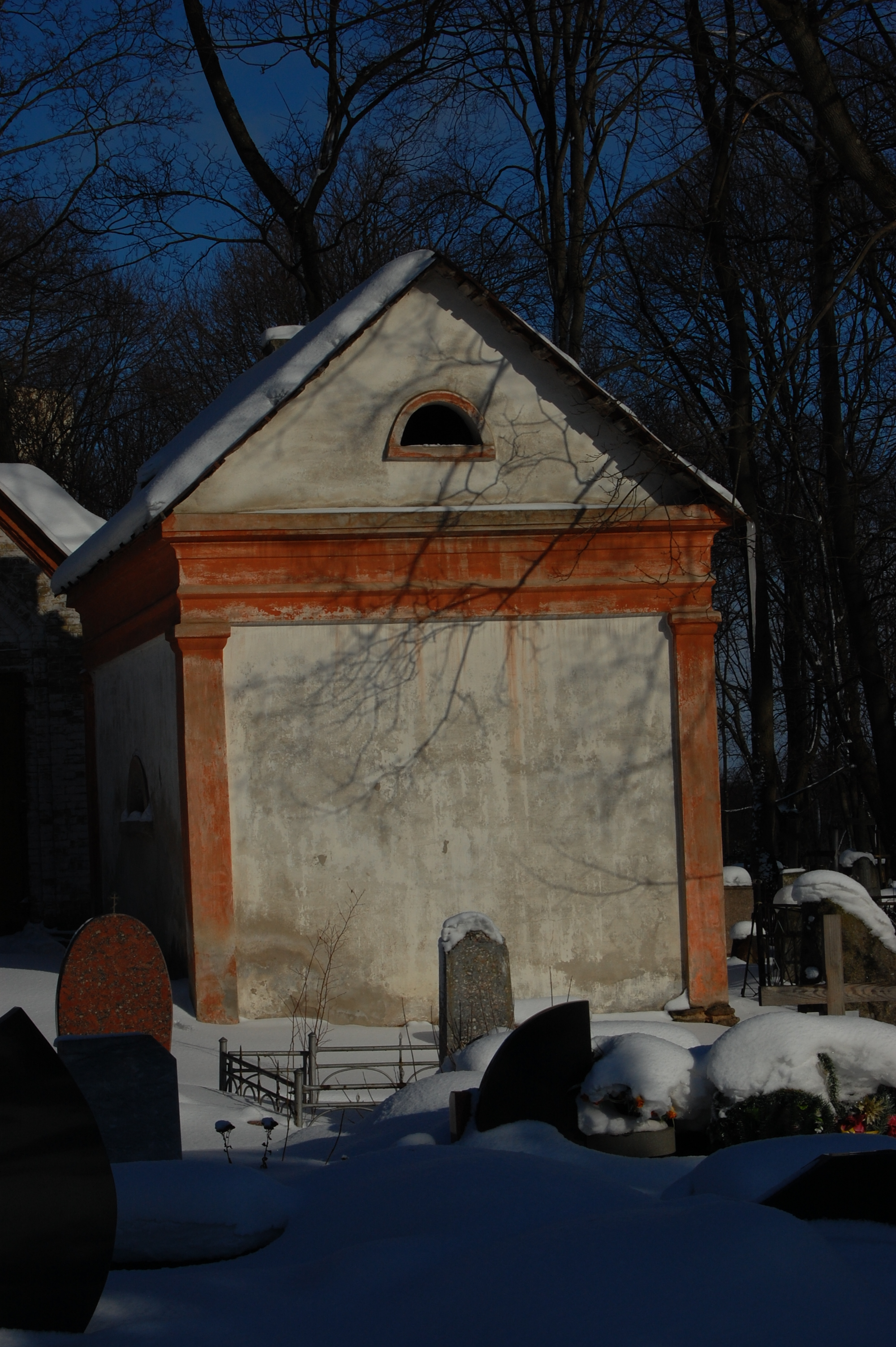 Chapel-burial-vault of Paweł Rawa. Calvary cemetery. Minsk, Belarus. Беларуская (тарашкевіца): Капліца-пахавальня Паўла Равы. Кальварыйскія могілкі. Менск, Беларусь.